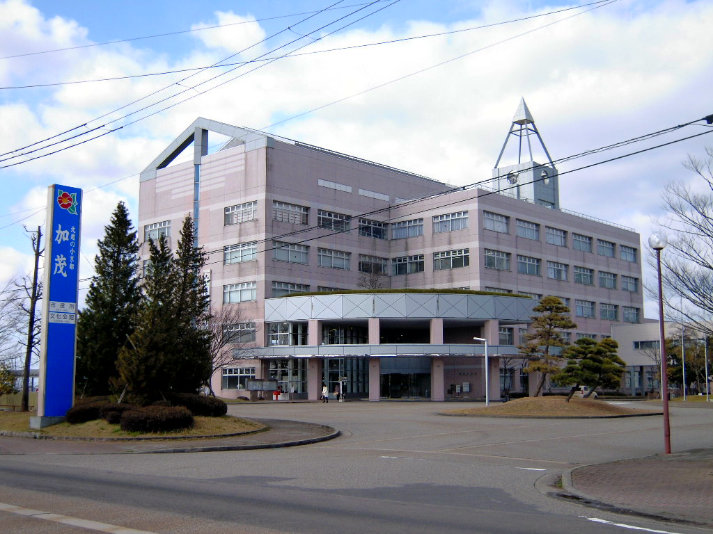 Kamo city office